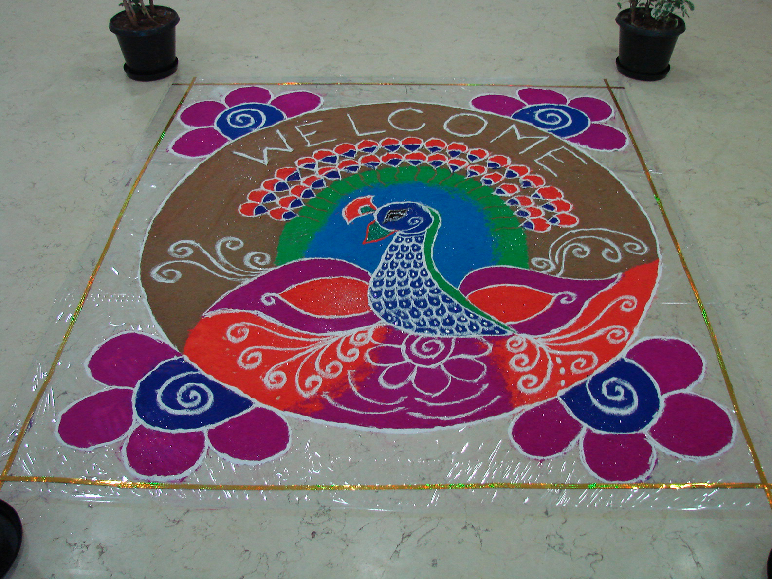 Rangoli at Hyderabad, India